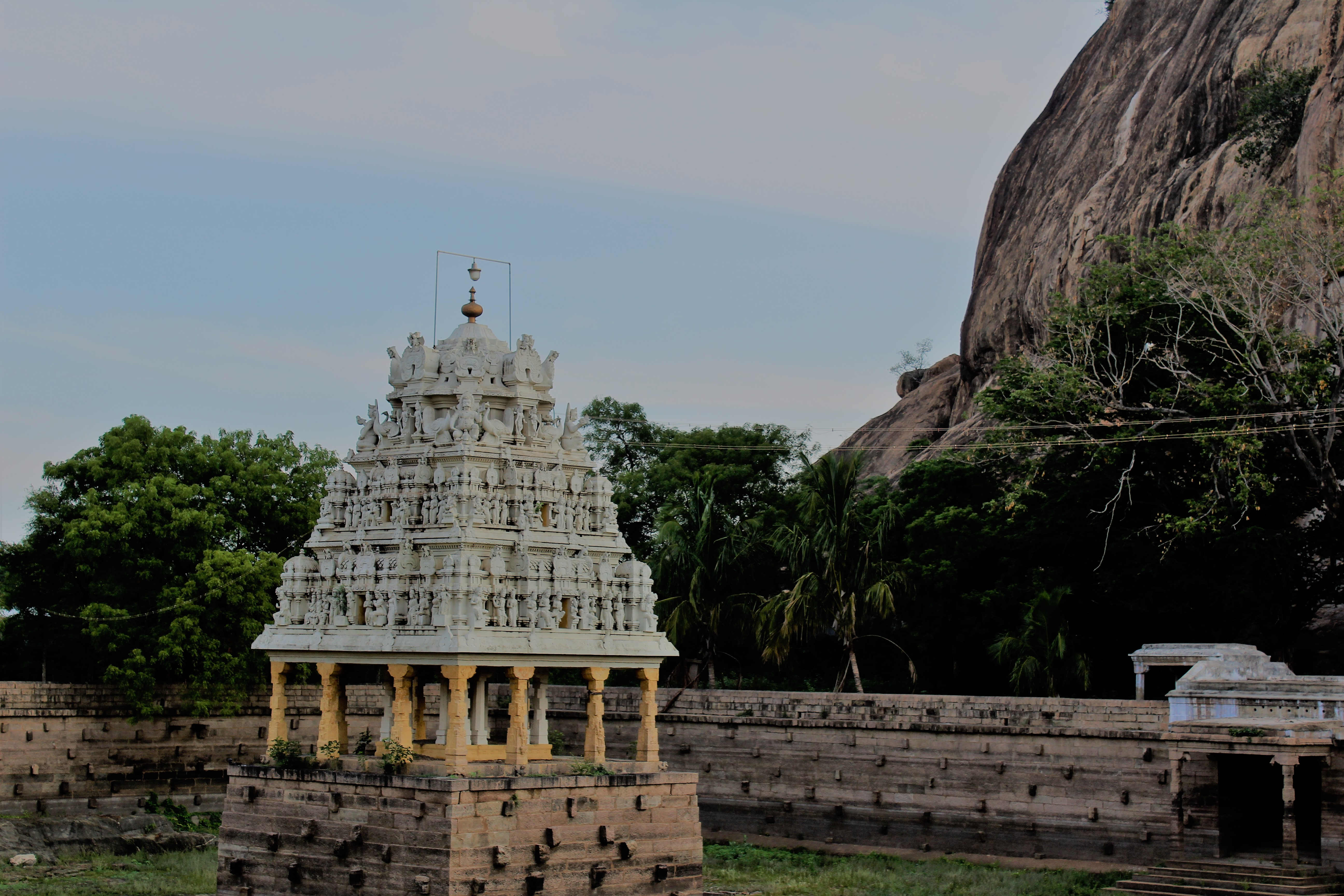 Kazhugumalai